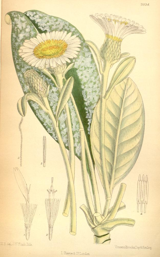 Illustration of Olearia insignis